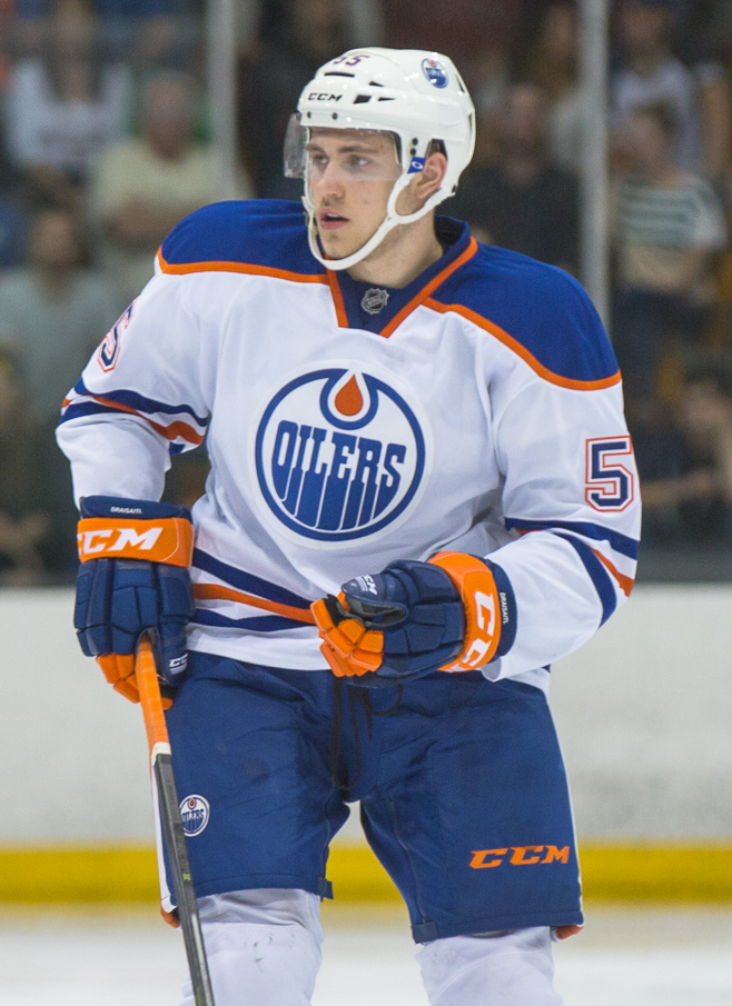 Leon Draisaitl